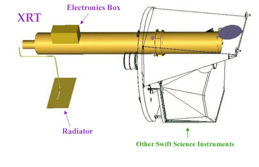 The layout of the XRT is shown in the schematic. Swift's X-Ray Telescope (XRT) is designed to measure the fluxes, spectra, and lightcurves of GRBs and afterglows over a wide dynamic range covering more than 7 orders of magnitude in flux. The XRT can pinpoint GRBs to 5-arcsec accuracy within 10 seconds of target acquisition for a typical GRB and can study the X-ray counterparts of GRBs beginning 20-70 seconds from burst discovery and continuing for days to weeks.